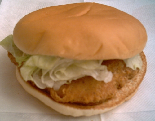 McDonald's_Hamburger in Japan photography day, 2006/10/16 photography person kici